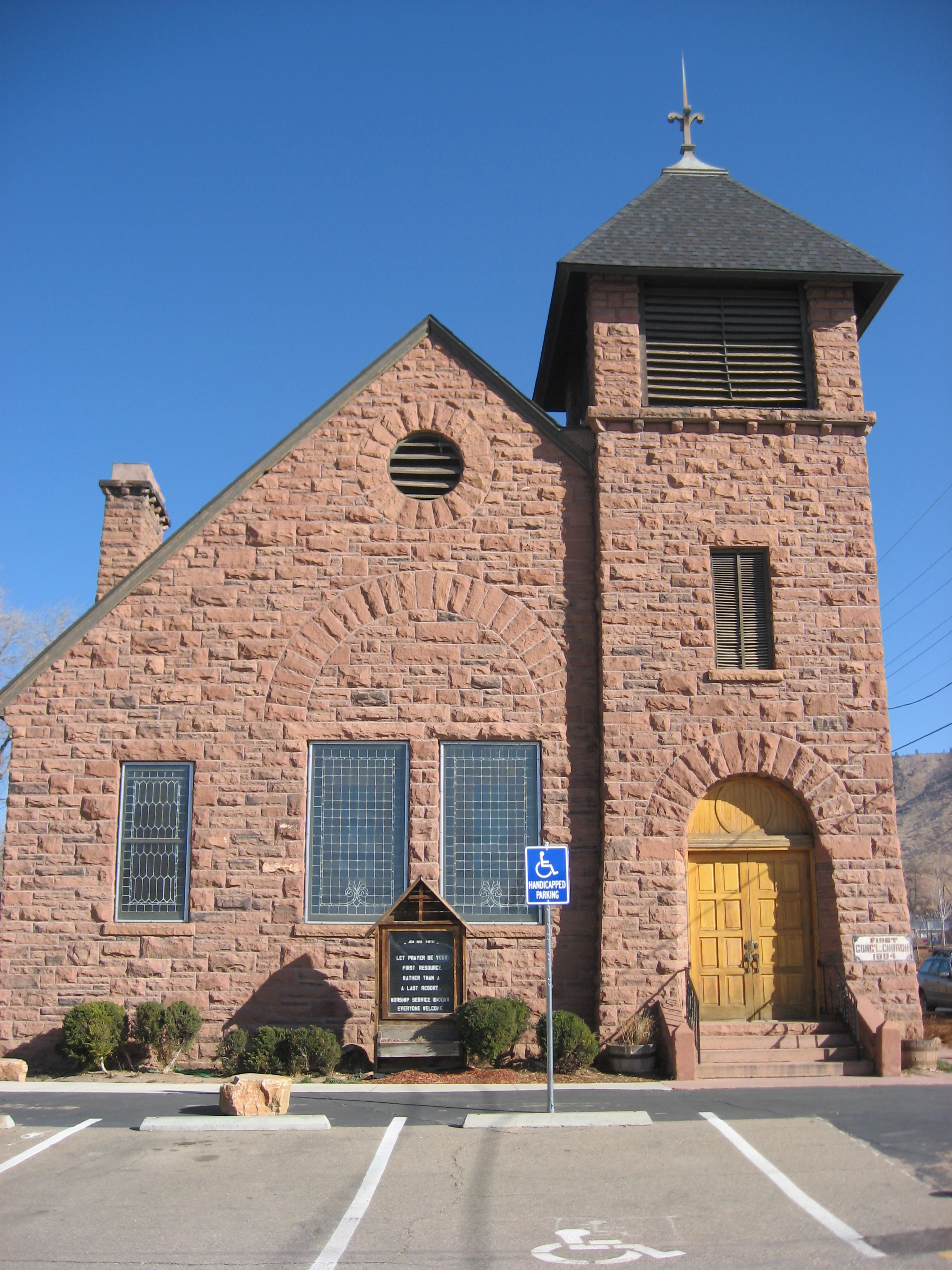 Front of the First Congregational Church of Lyons, Colorado, United States. Located at the intersection of High and 4th Streets, the sandstone church was built in 1895. It is listed on the National Register of Historic Places.